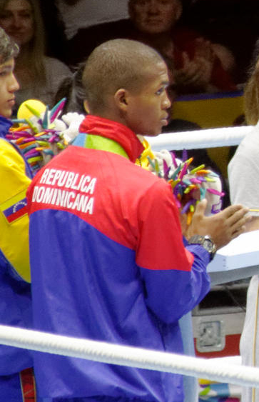 Pan Am Boxing Men's Light Fly Weight 46-49Kg Medal Round. Victor Santillan